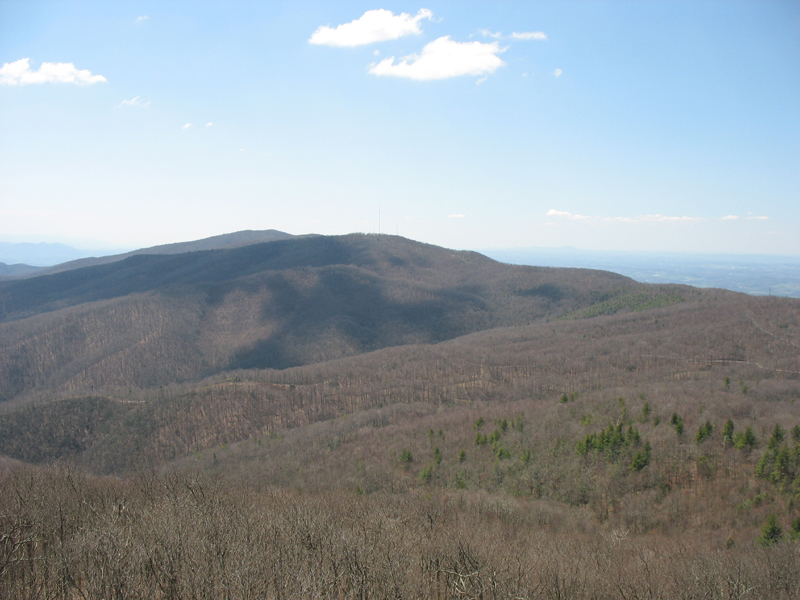 Picture taken from Holston High Knob looking at Holston High Point.